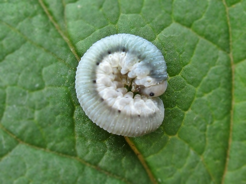 Monostegia abdominalis (Monostegia), Elst (Gld), the Netherlands